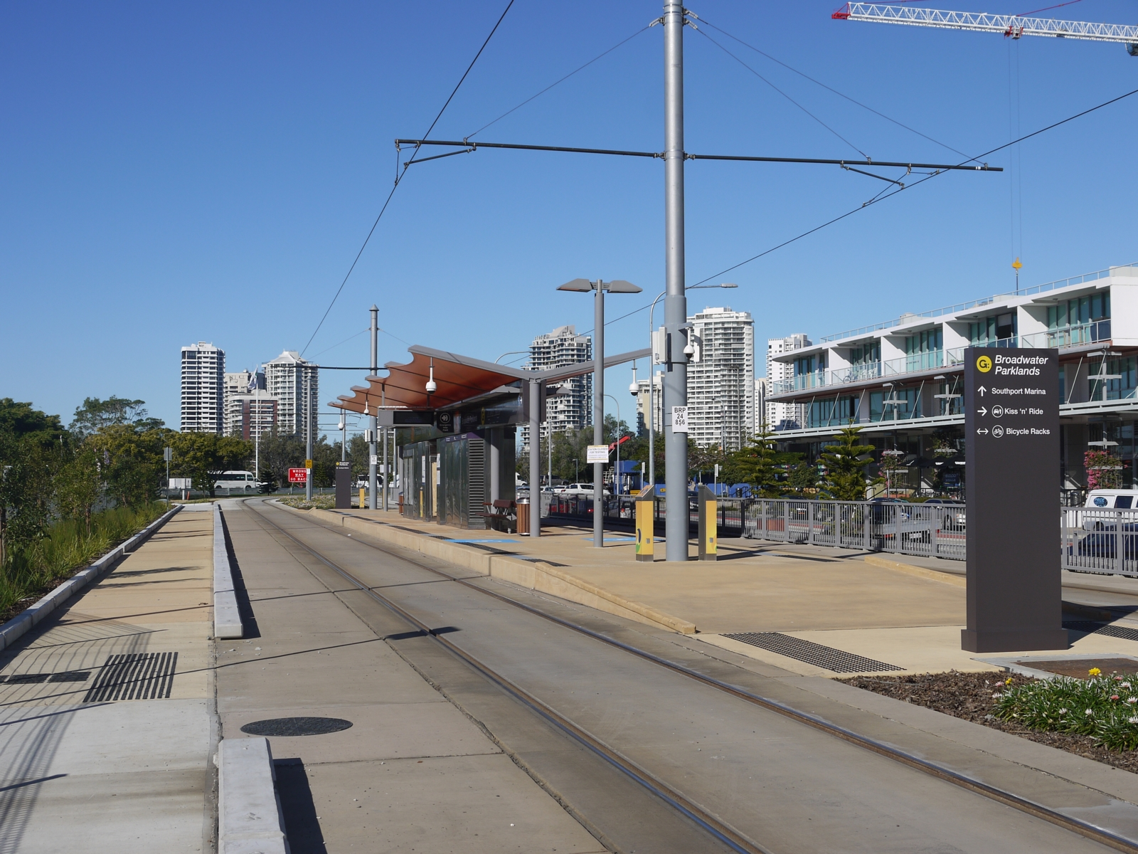 Gold Coast Light Rail - Broadwater Parklands Station